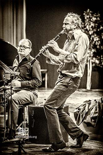 Rudi Mahall, Clarinettist